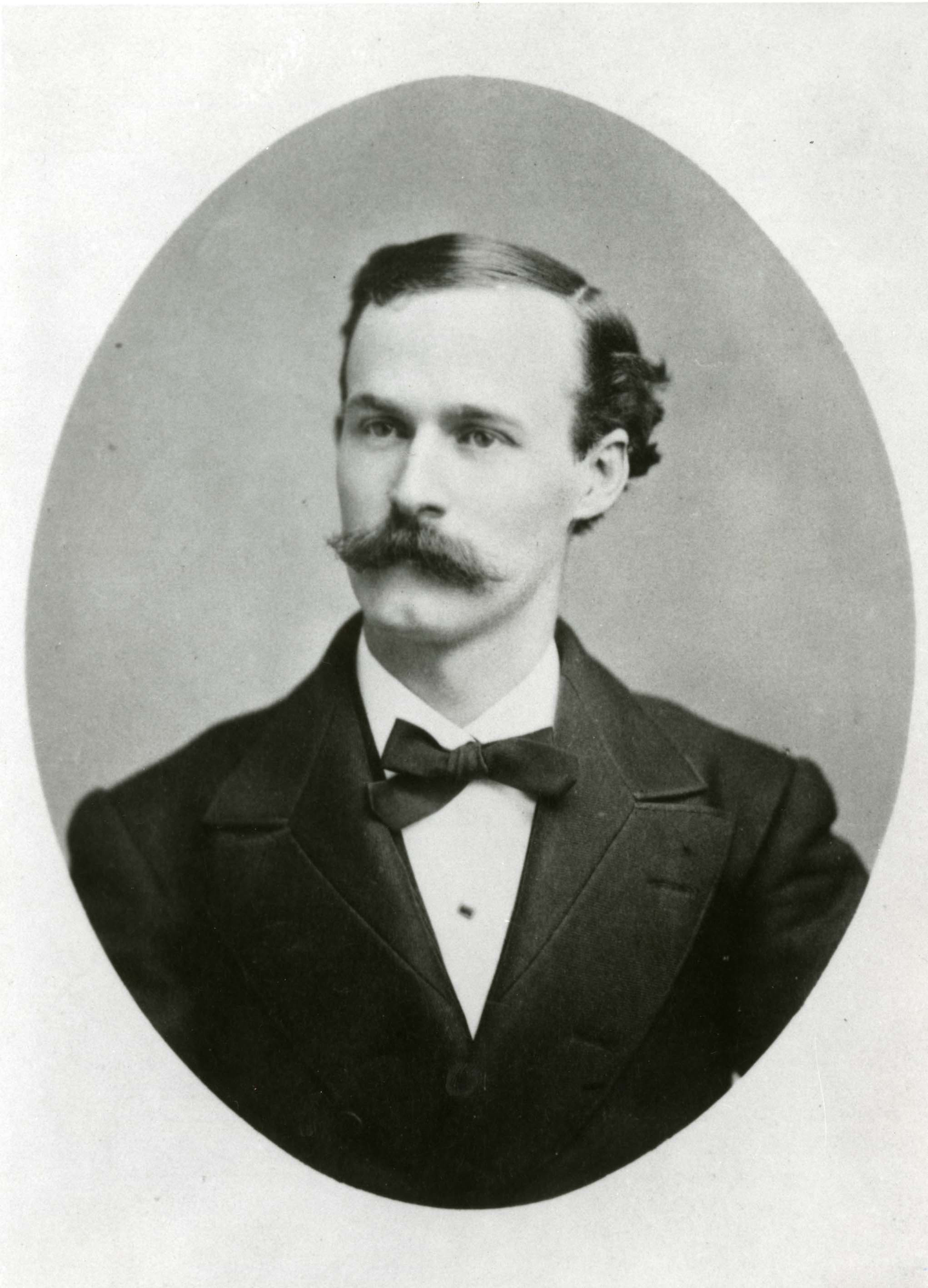 1968 portrait of James Walter Thompson.